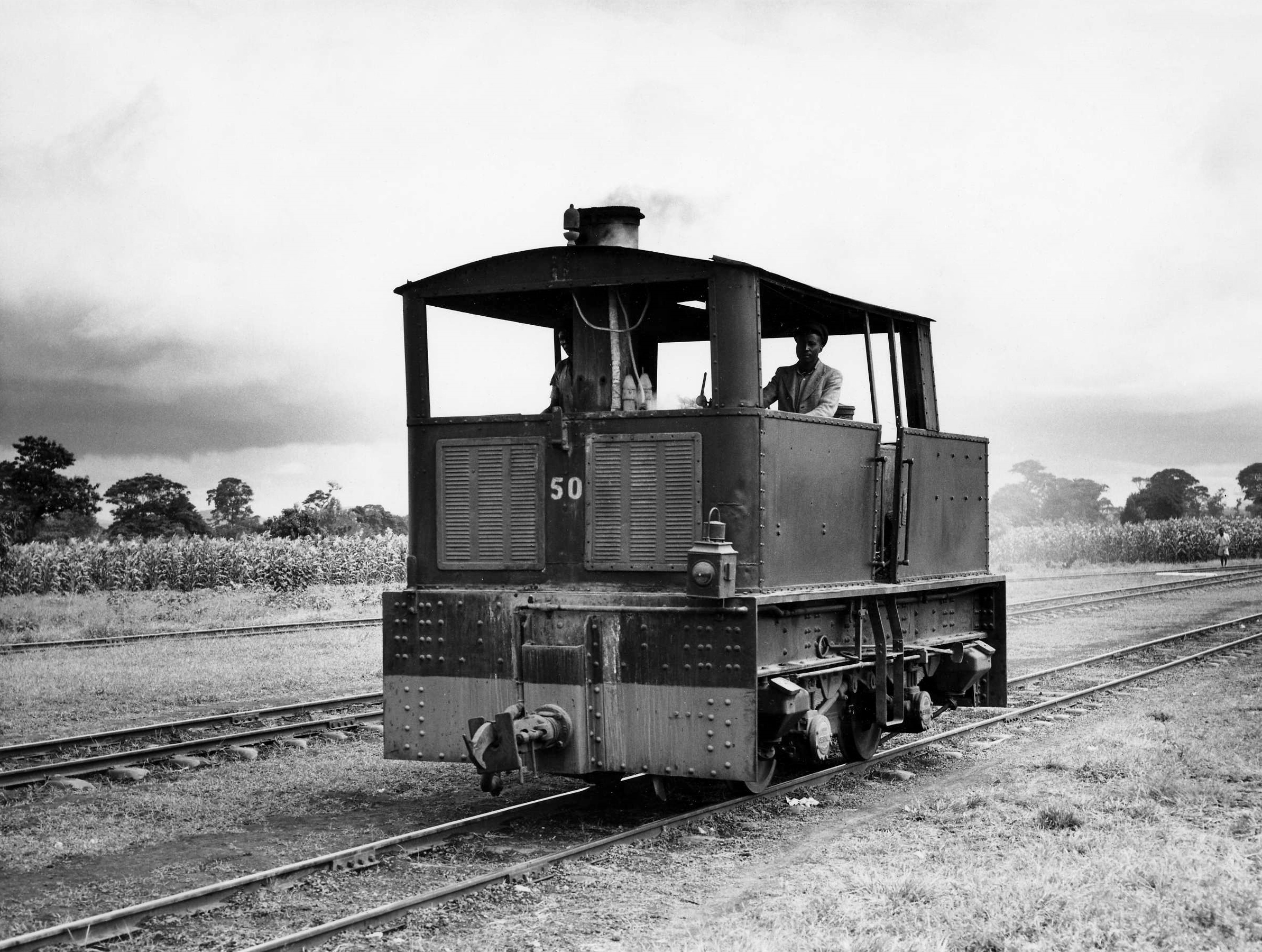 A left facing front and side portrait of Tanganyika Railway GSL class Sentinel geared steam shunting locomotive no. 50.